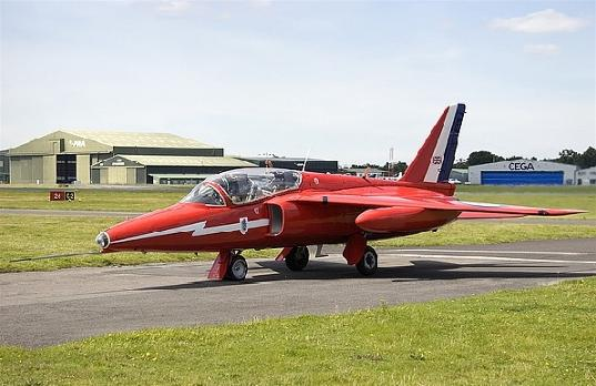 Red Arrow